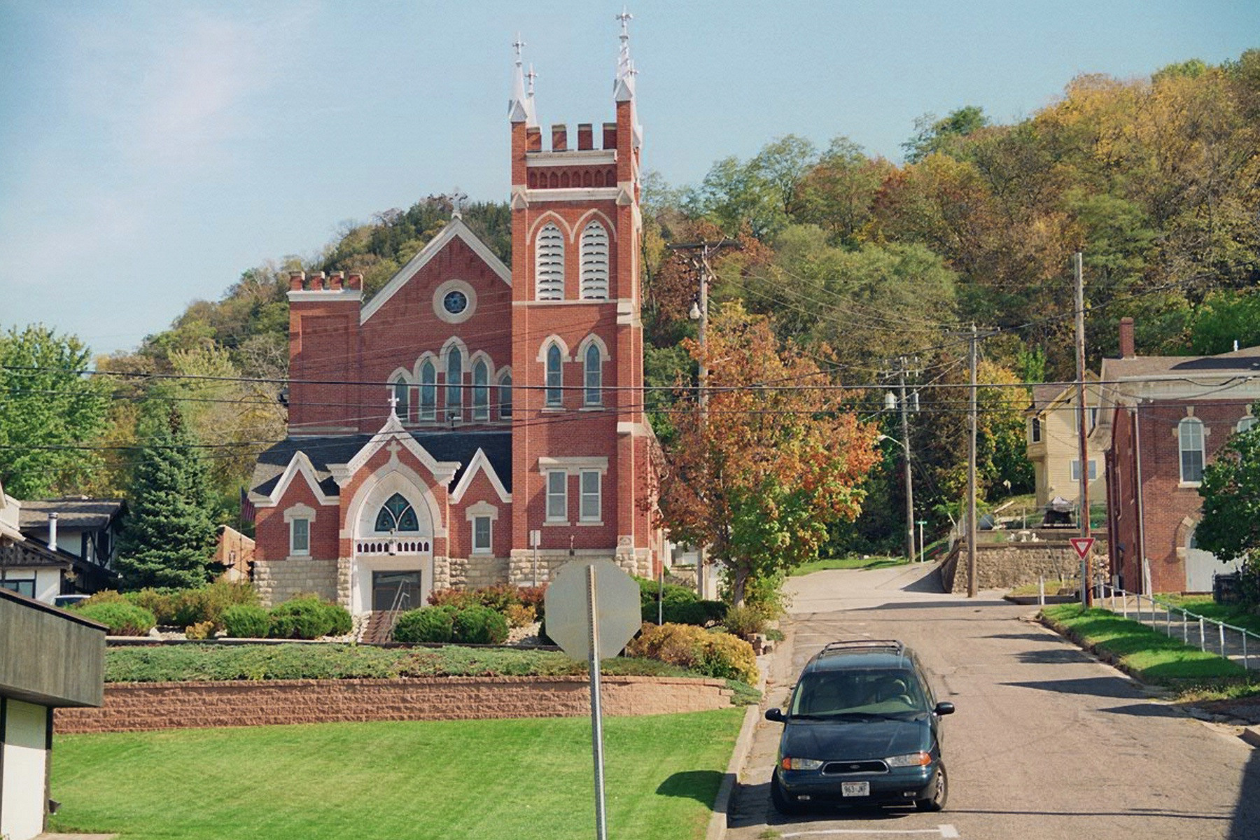 eigenes Foto 10/2006 Fountain City, WI